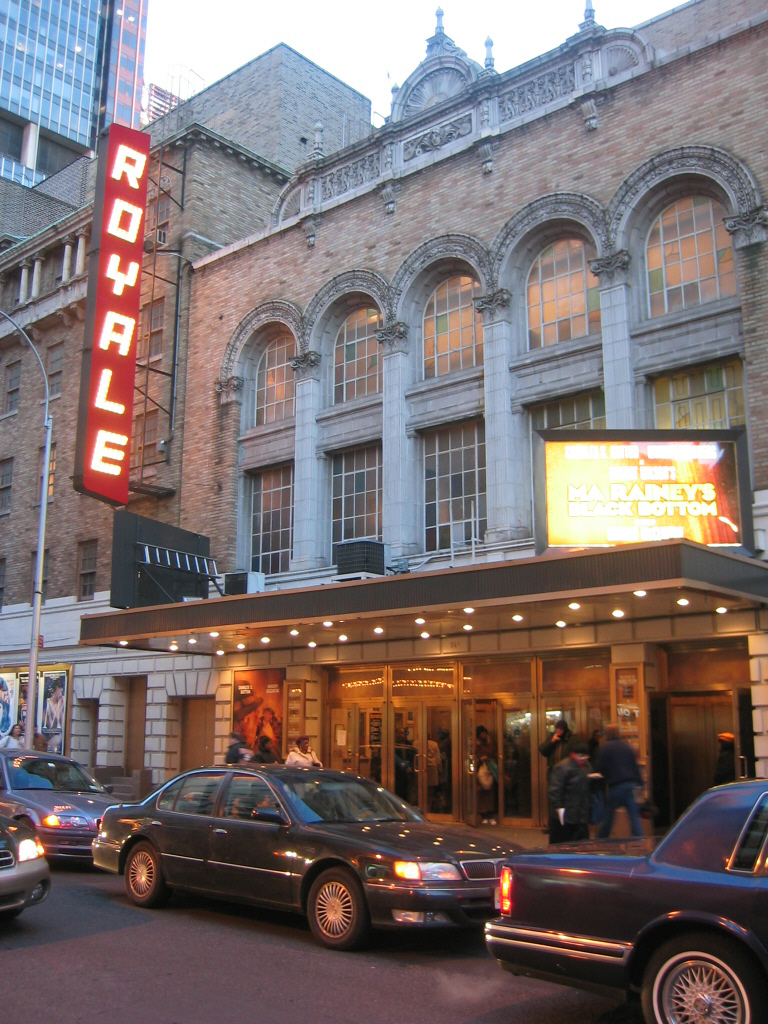 Royale Theatre (now the Bernard B. Jacobs Theatre), 2003, showing Ma Rainey's Black Bottom 242 West 45th Street, Manhattan, New York City